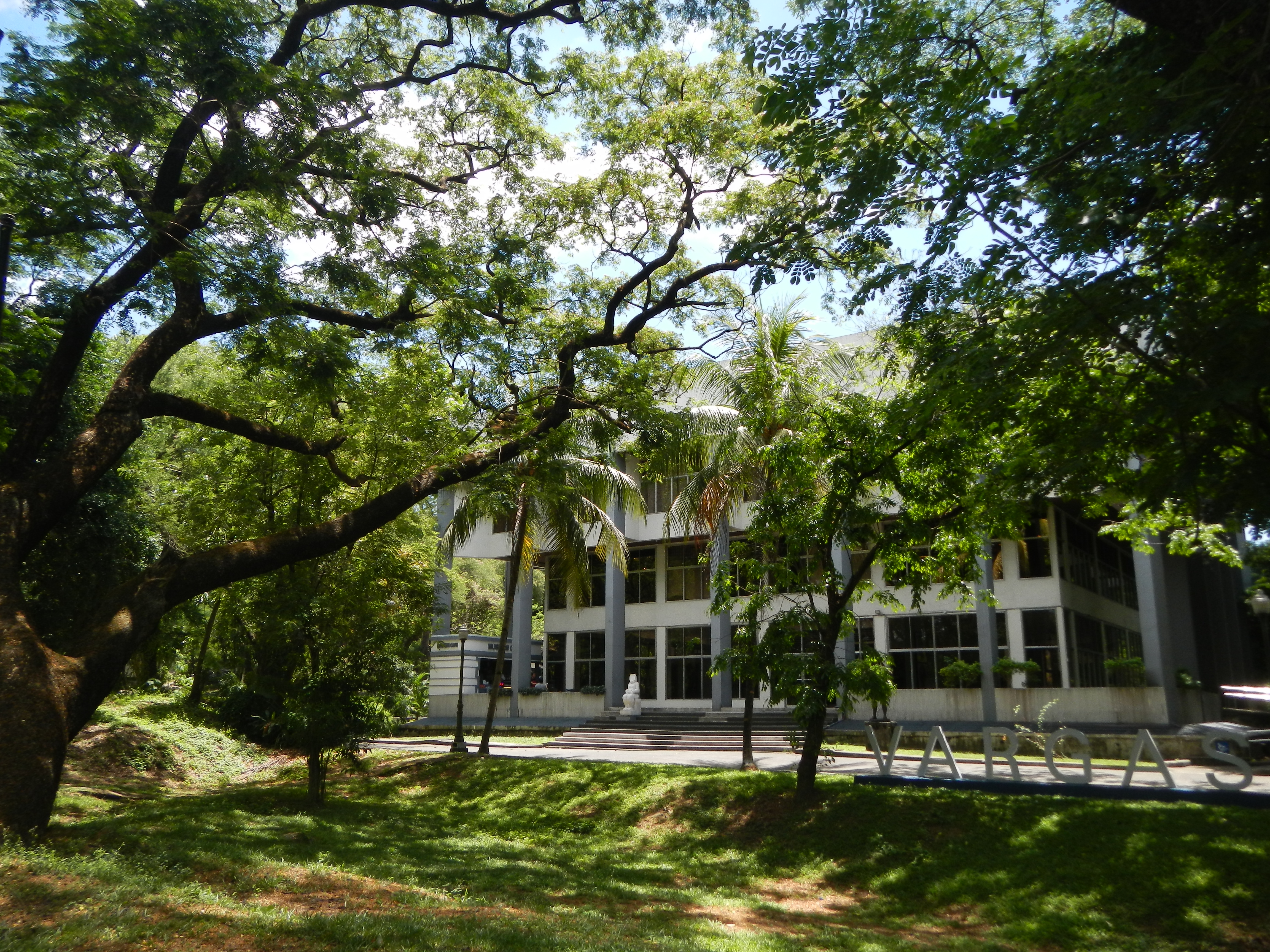 Jorge B. Vargas Museum and Filipiniana Research Center[1]located at the University of the Philippines Diliman campus, houses the collection of art, stamps and coins, library, personal papers and memorabilia of Jorge B. Vargas[2] which he bequeathed to the university. It is under the management of the UP Diliman College of Arts and Letters.[3] Ganta | Diokno Pasilan[4] Curiosities | Geraldine Javier[5]Track Changes | The Native Strain: Guillermo Tolentino and Aurelio Alvero [6]The Native Strain: Guillermo Tolentino and Aurelio Alvero 2F Main Gallery